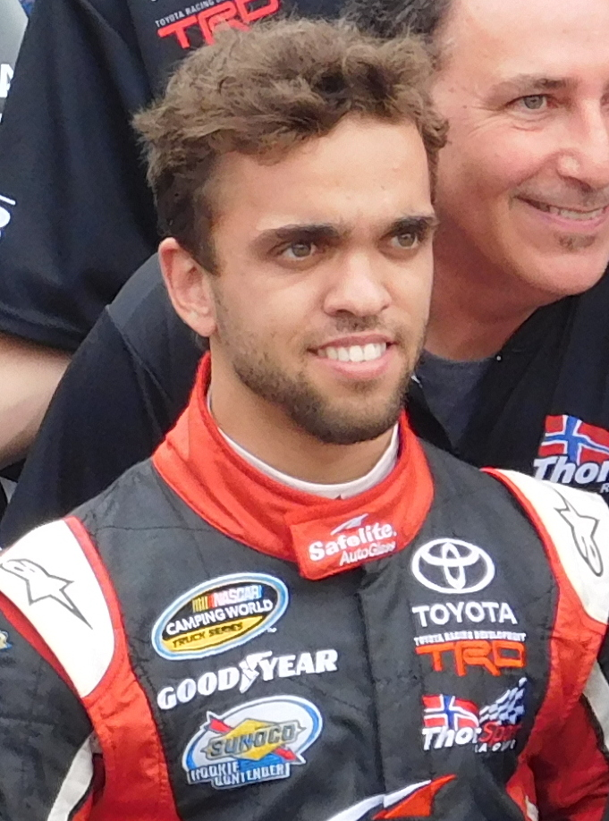 Rico Abreu and his crew at Dover International Speedway in 2016